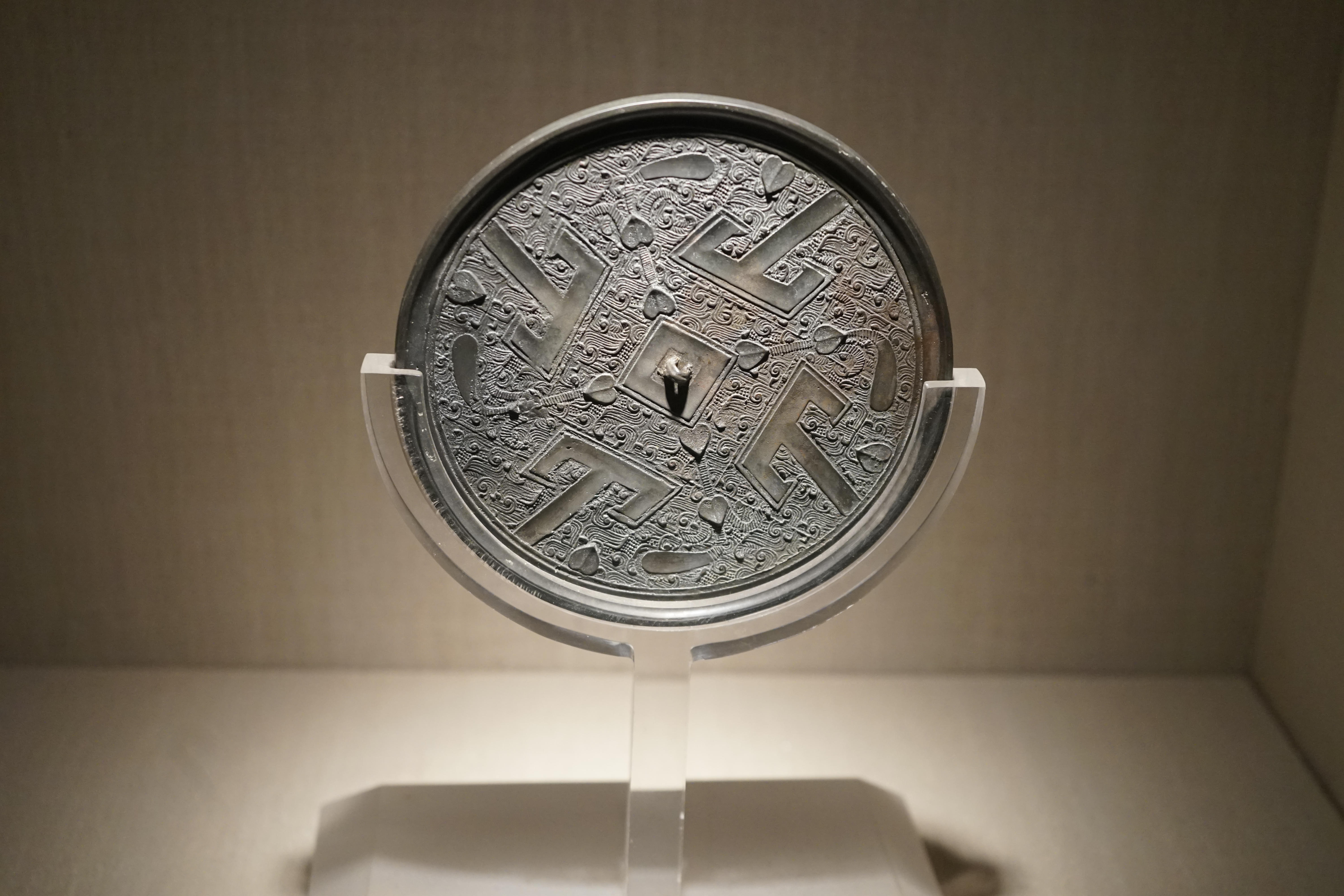 中文（中国大陆）: Mirror with Four Inverted-T Pattern 战国 1976年鄂城朱刘陈出土